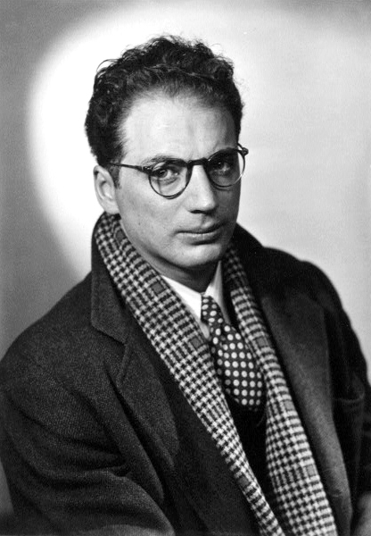 Photograph of Clifford Odets